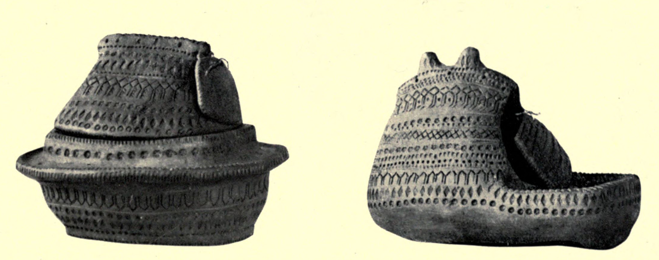 Pottery houses for rice anito (spirits) among the Itneg people (1922, Philippines)